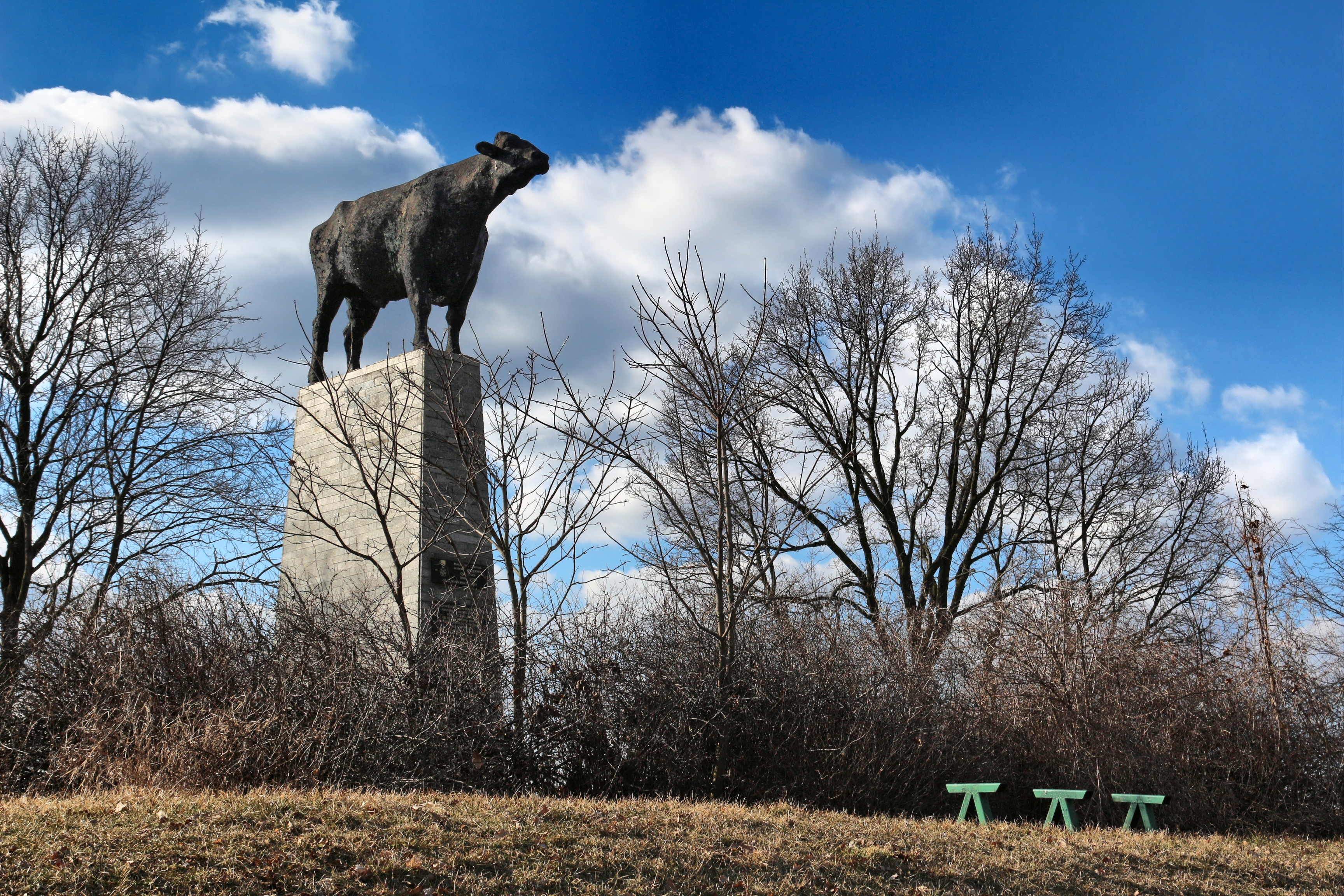 Wschowa, monument of Ilon, the bull